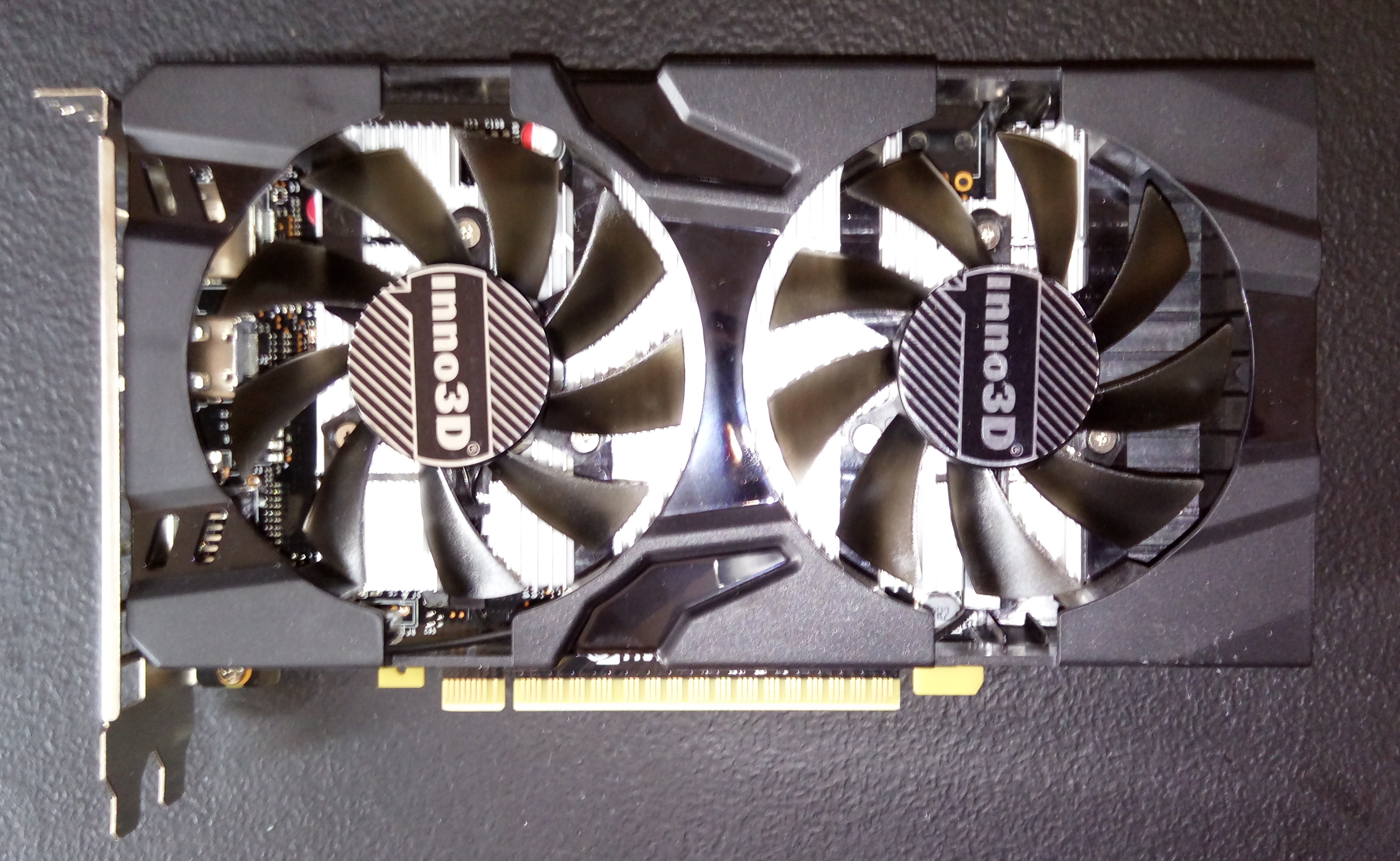 An inno3D-branded GeForce GTX 1050 graphics card bought by the uploader in 2017. Utilising the Pascal architecture, the 1050 supports DisplayPort, DVI and HDMI outputs, and came with 2GB of GDDR5 RAM.